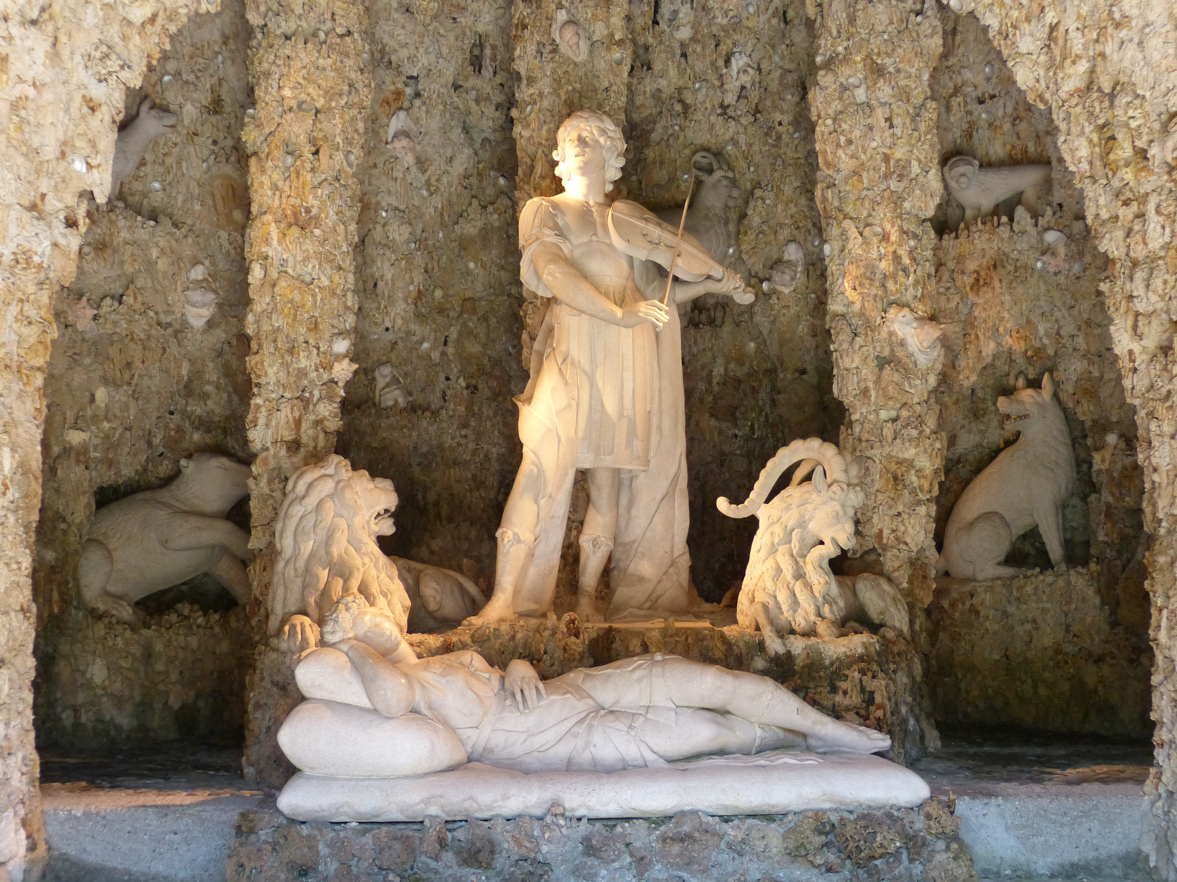 Salzburg ( Austria ). Hellbrunn palace gardens: Grotto of Orpheus ( 1613-15 ) by Santino Solari - Sculpture group of Orpheus and Eurydice.